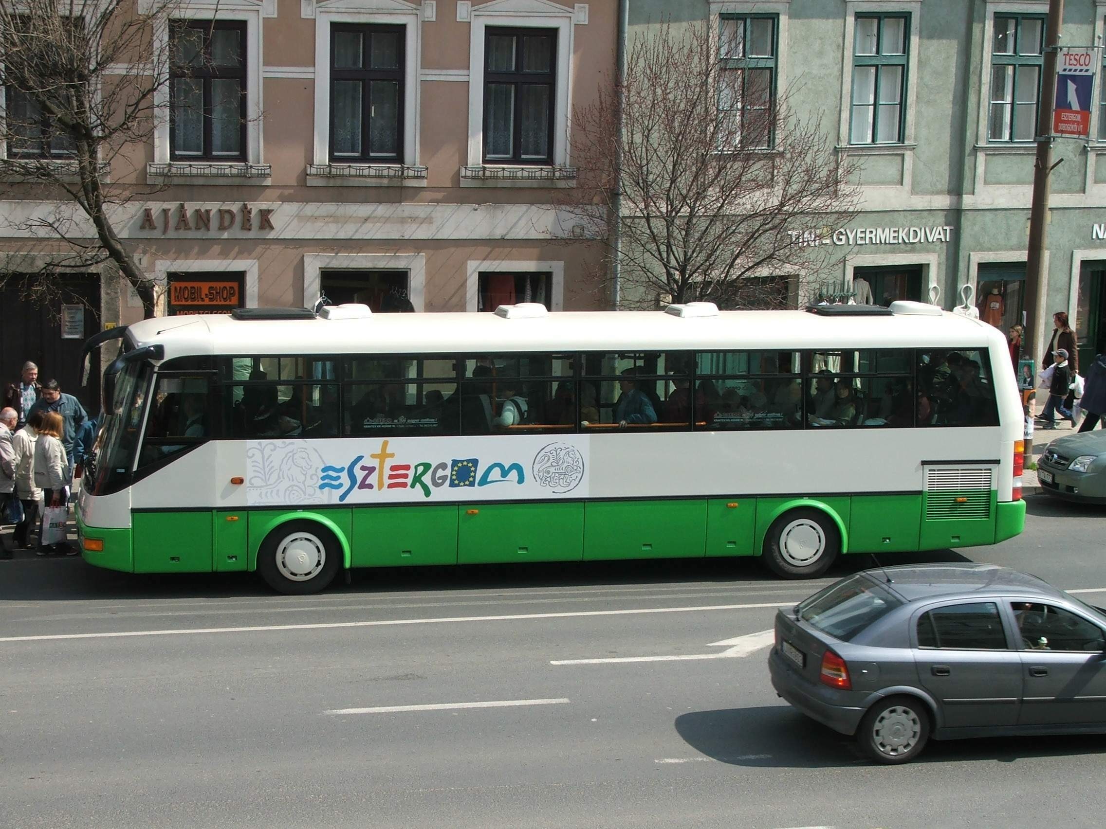 A new Credo bus in Esztergom, with the city's logo on the side. Credo busz, Esztergom, Kossuth Lajos utca (11-es út)